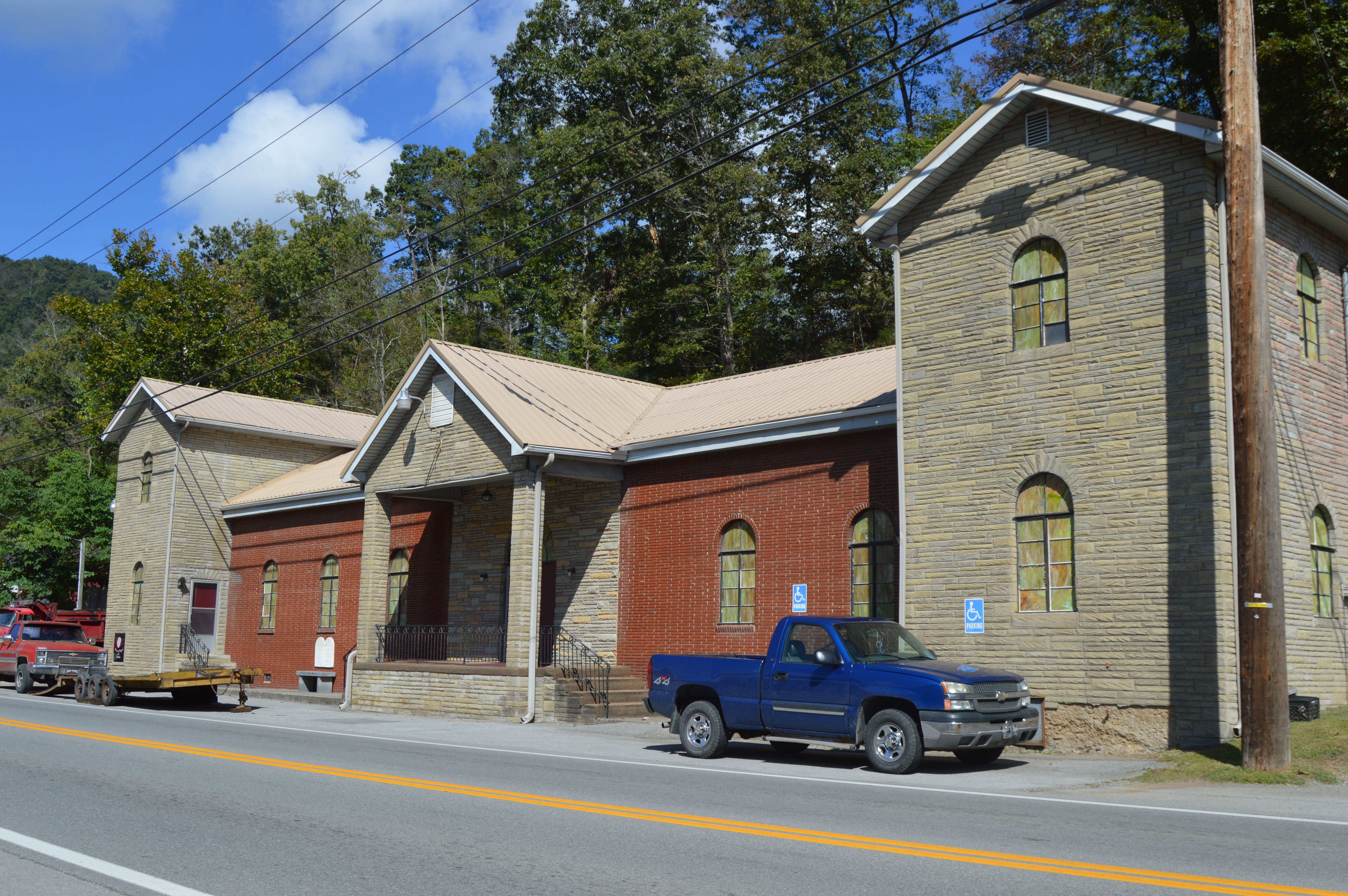 Front of the former House of Prayer and Worship (seemingly no longer in existence), located at 3128 Shelbiana Road (U.S. Route 460/Kentucky Route 80) in Shelbiana, Kentucky, United States.